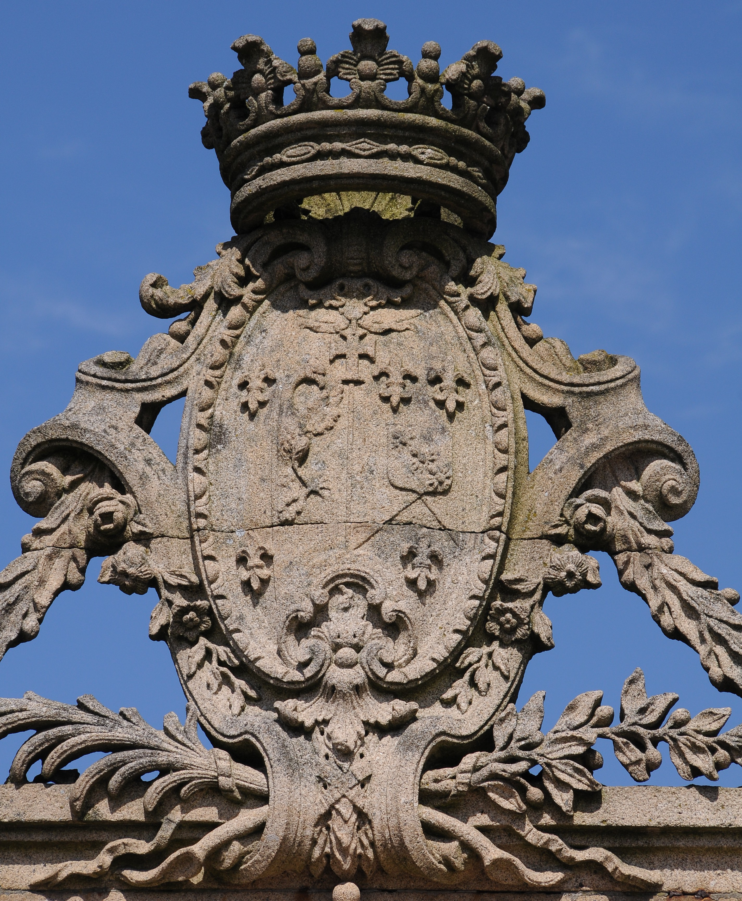 Coat of Arms in Macieis Aranha House, in Braga, Portugal.